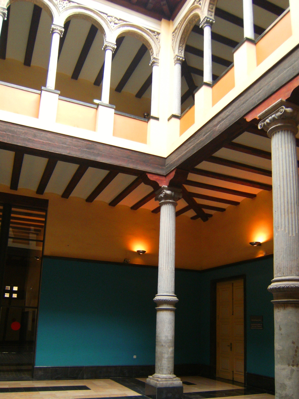 The city newspaper-library inside